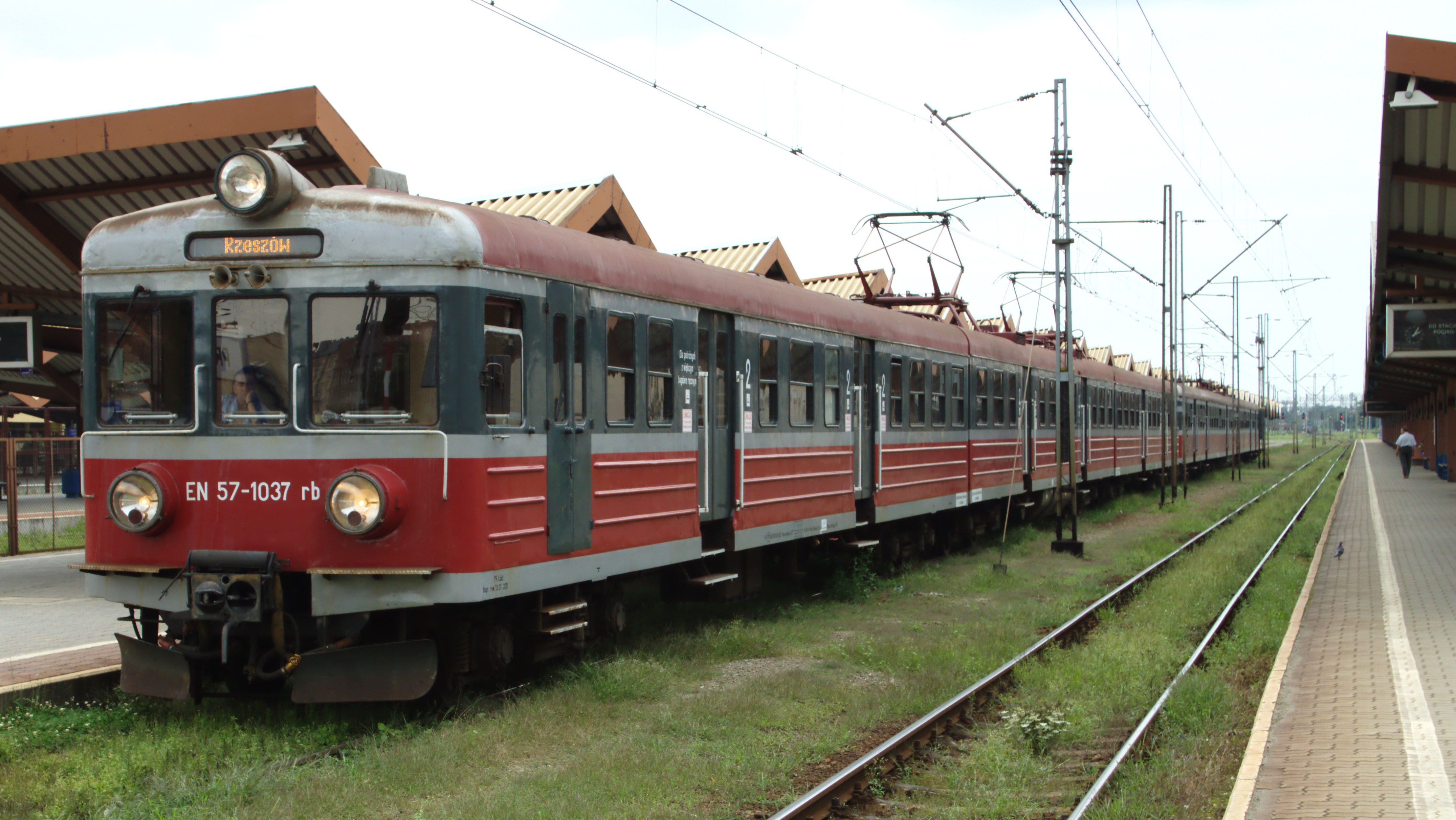 An EMU EN 57 waiting at a platform of the Przemyśl train station, Podkarpackie voivodeship, Poland